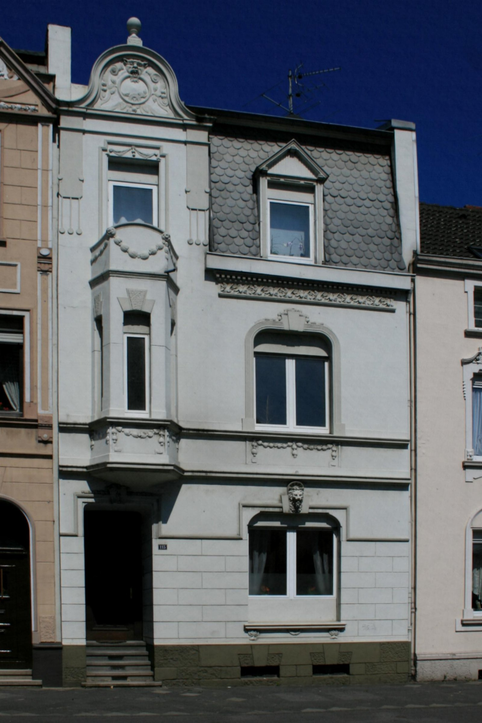 Cultural heritage monument No. K 009 in Mönchengladbach